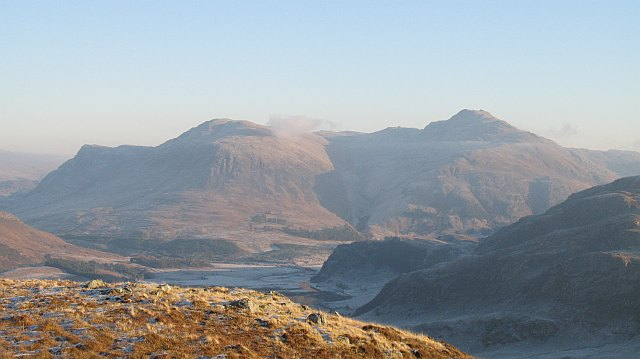 Ben Killilan / Sgùman Còinntich View of Ben Killilan from the Beinn Conchra triangulation point.